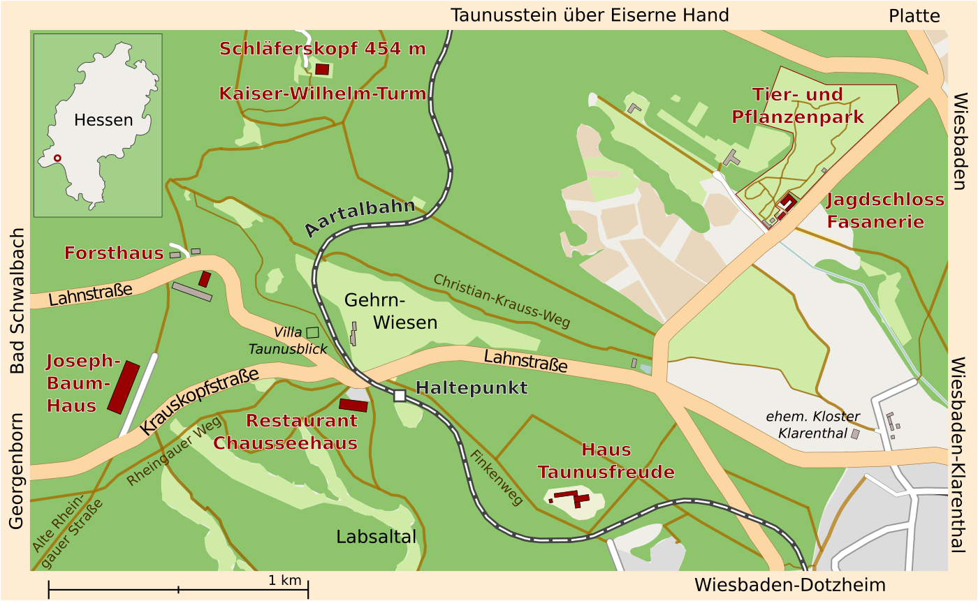 surroundings of Chausseehaus (Wiesbaden)